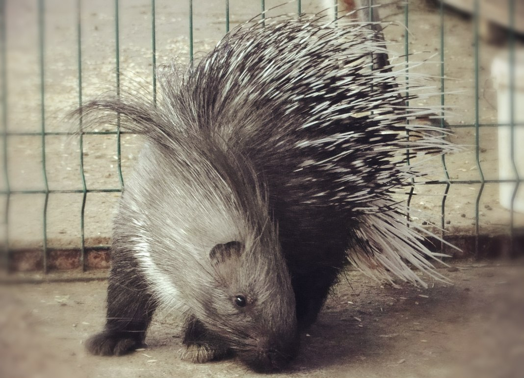 Indian crested porcupine. Sevastopol Zoo.